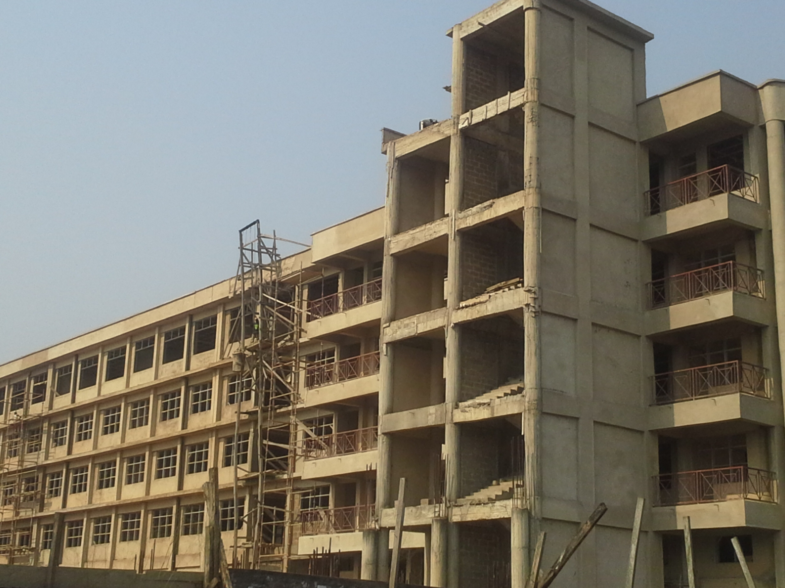 this is the new engineering block which is still under construction